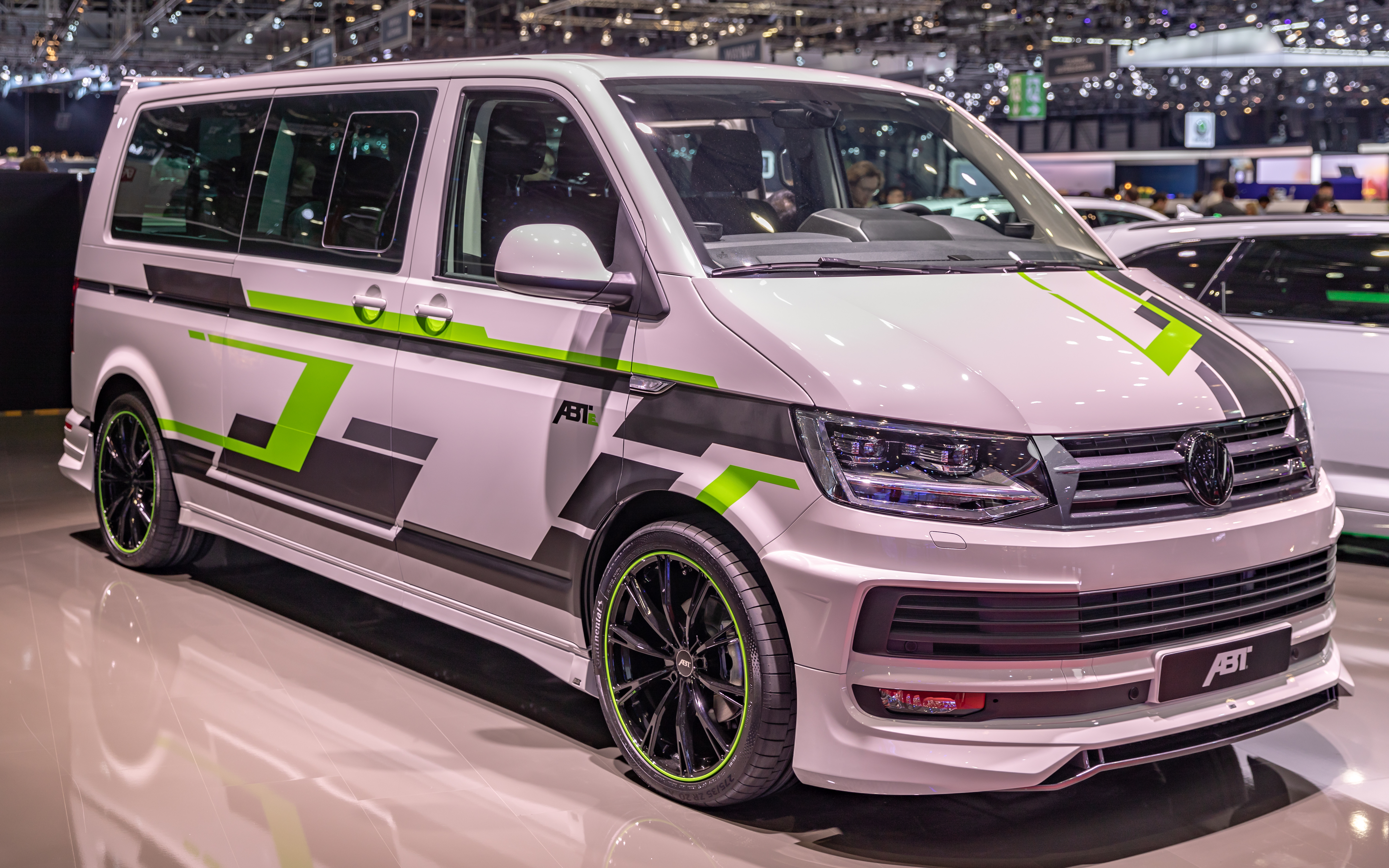 ABT e-Transporter at Geneva International Motor Show 2019, Le Grand-Saconnex